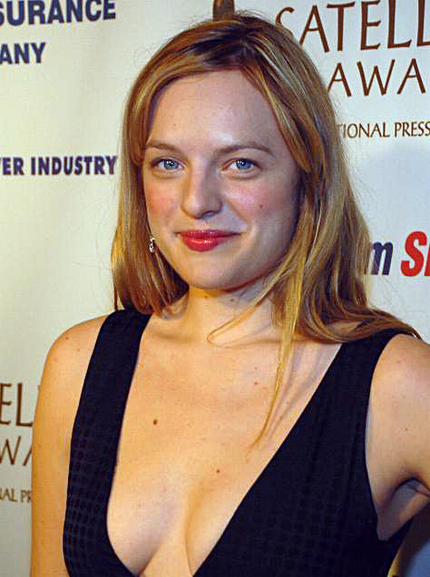 Actress Elizabeth Moss at the International Press Academy’s 12th Annual Satellite Awards